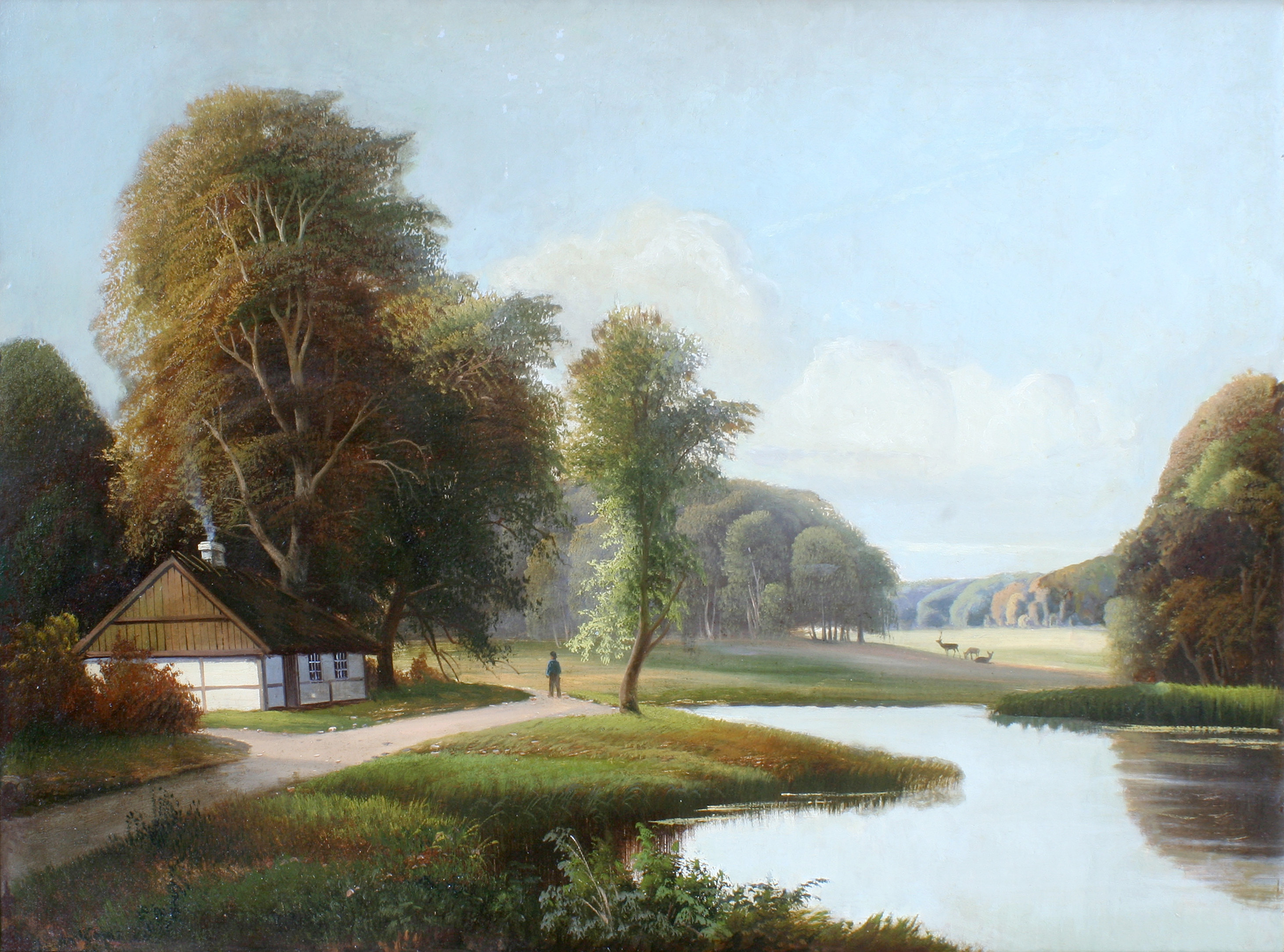 19th-century view, probably of Dyrehaven (Jægersborg Dyrehave), a deer park in Denmark, by Sigfried Hass (Danish, 1848-1908). Oil on canvas, 25-1/4" x 36-1/4".